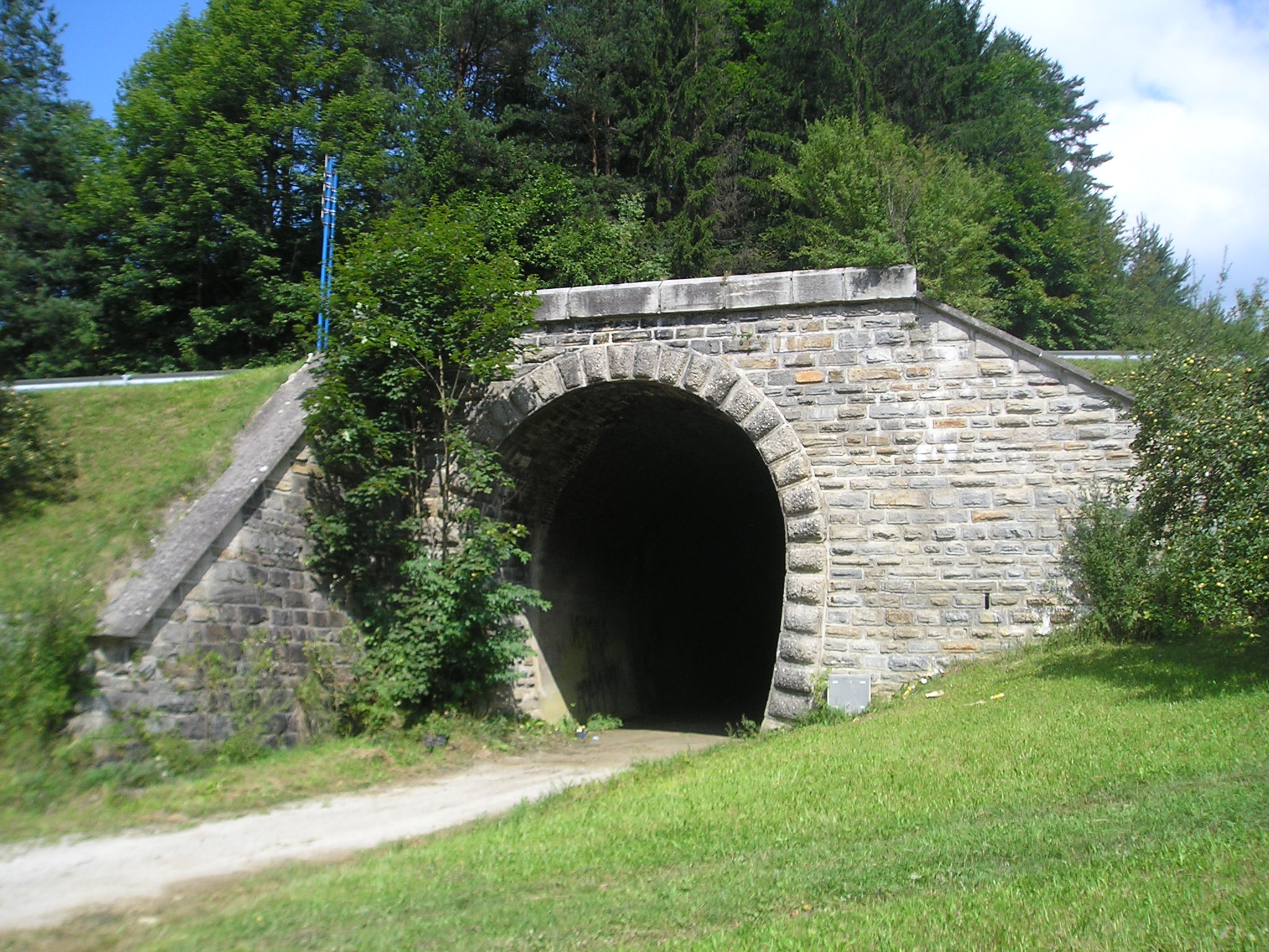 Southern entrance of the former Mislinja railway (Lavanttalbahn) tunnel in Mislinja. Today it is used for local road traffic.